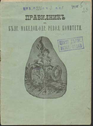 Cover of the statute of the Bulgarian Macedonian-Adrianople Revolutionary Committee